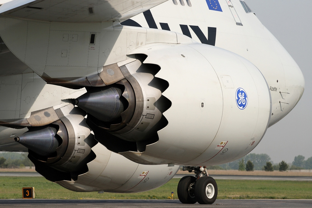 General Electric GEnx-2B67 engines. Transit refuel stop. 'City of Esch-sur-Alzette'.